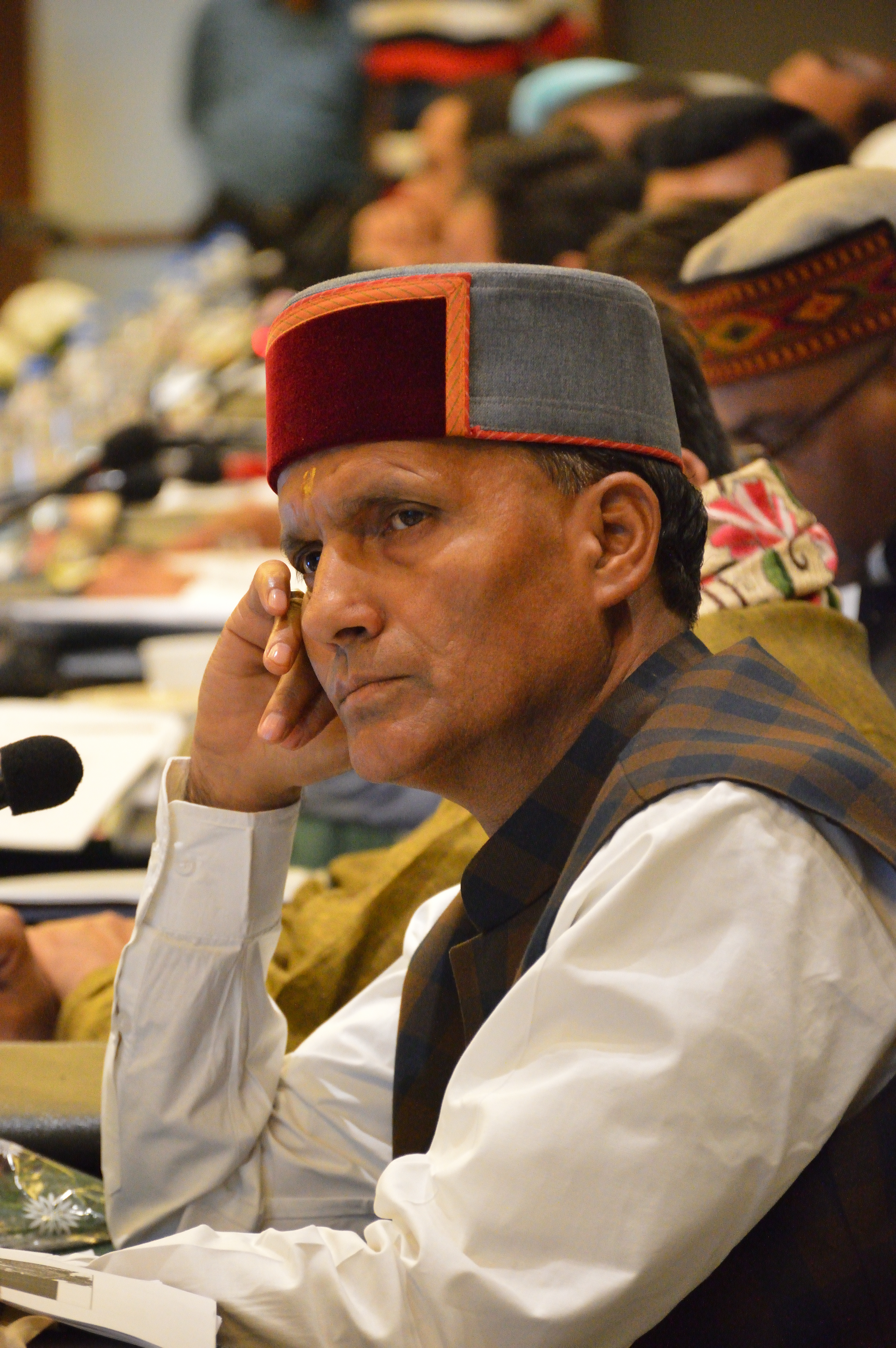 This photograph was taken during the Meeting of the Parliamentary Consultative Committee for the Ministry of Tourism and Ministry of Culture, Govt. of India, that held at the ITC Sonar hotel, 1 JBS Haldane Avenue, Kolkata for three hours.